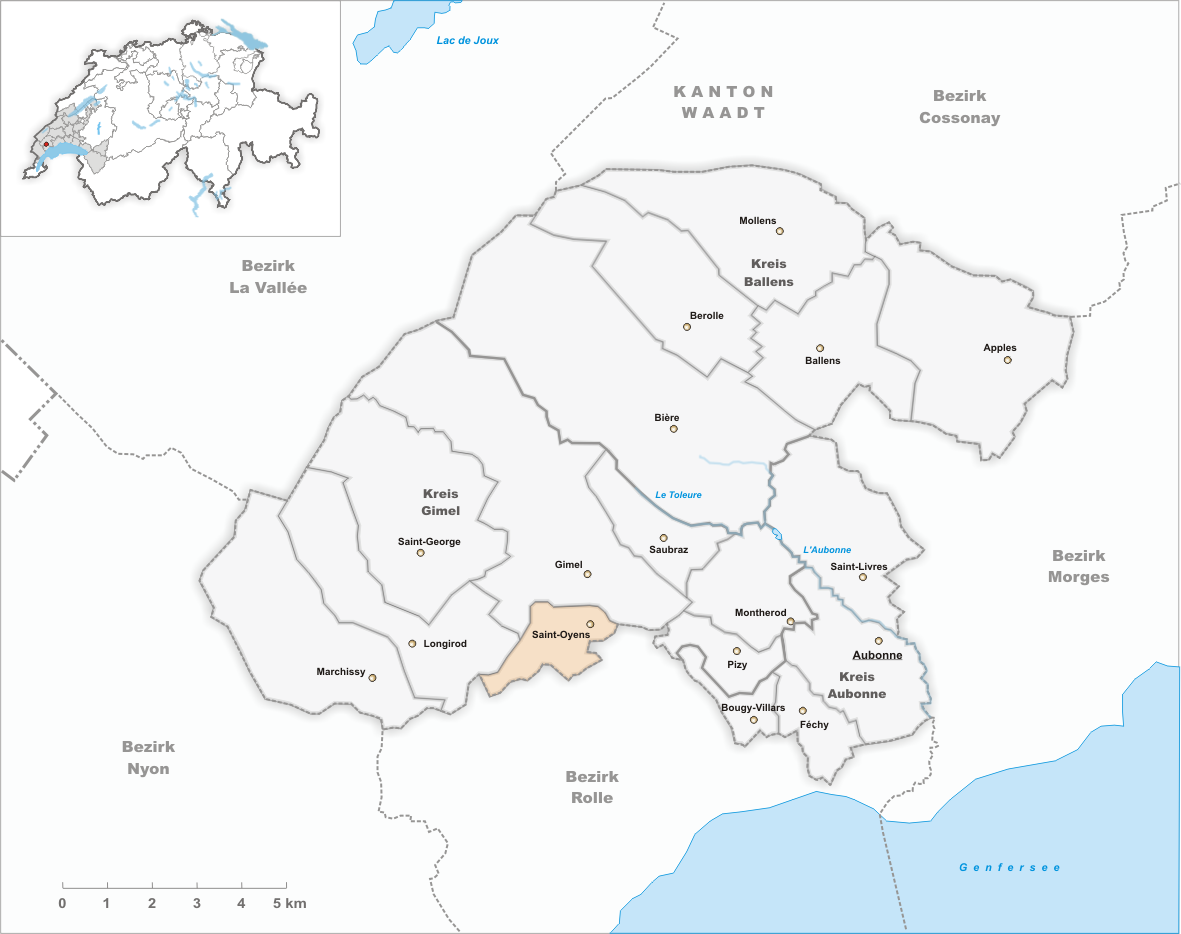 Municipality Saint-Oyens